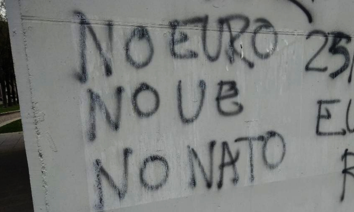 NO EURO NO UE NO NATO, graffiti in Turin